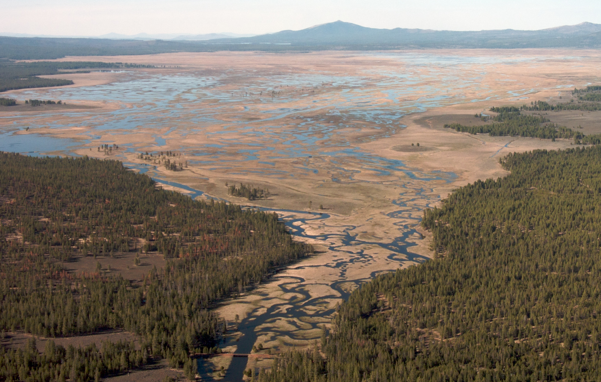 Aerial view of Sycan Marsh, along the Sycan River in south-central Oregon in the United States.